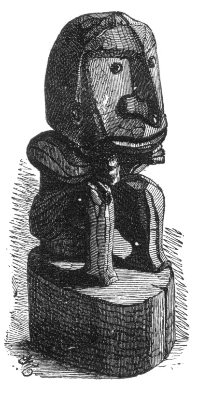 Caption reads "Papuan charm".